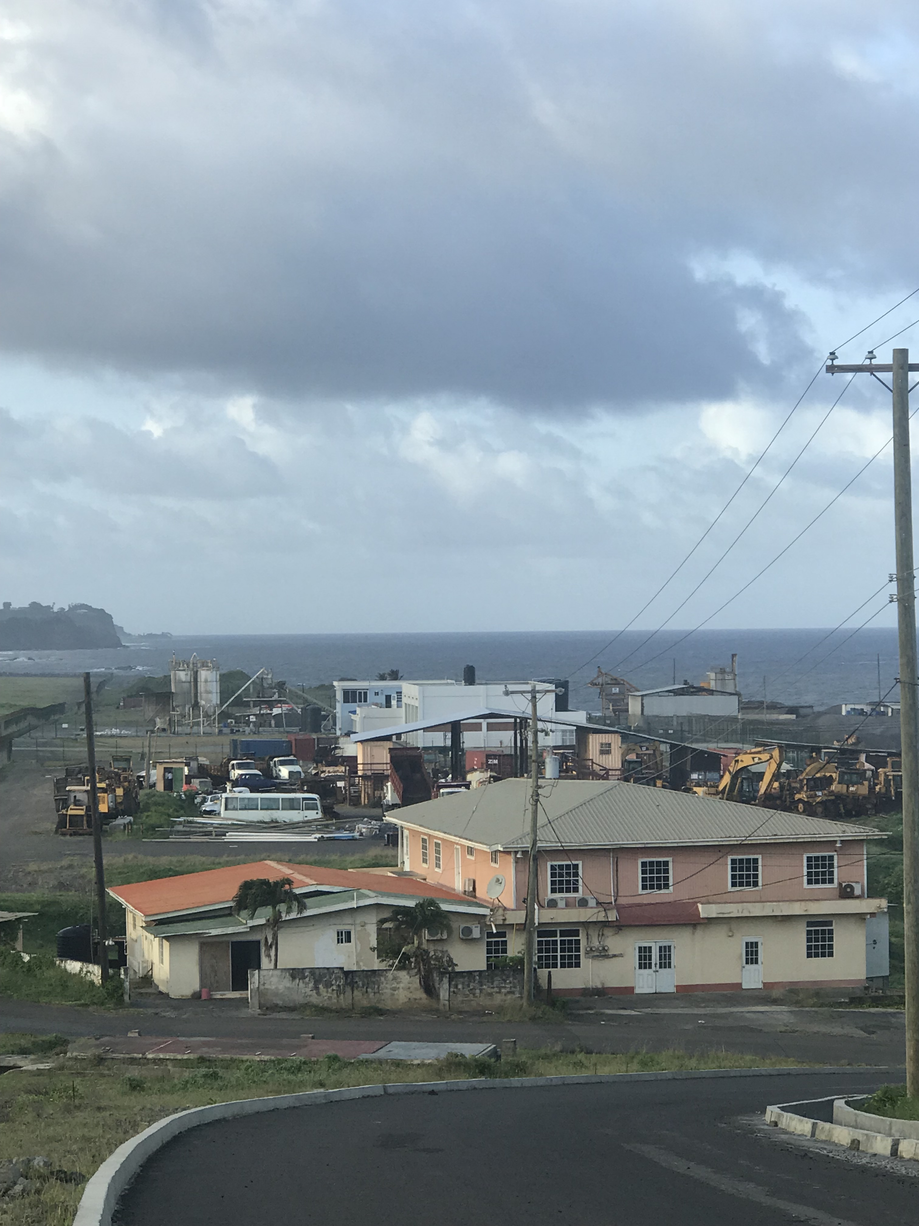 IADC Office at AIA